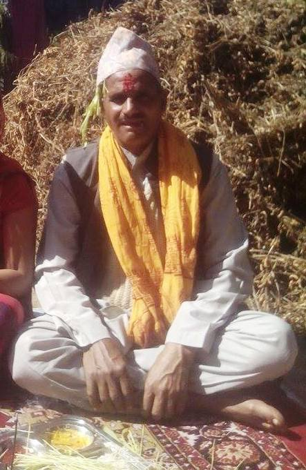 हालका पुजारी श्री दसरथ जोशी